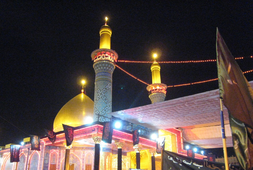 Al Abbas Mosque - Tomb of: Abbas ibn Ali, Karbala, Iraq.